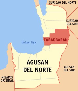 Map of the Agusan del Norte showing the location of Cabadbaran